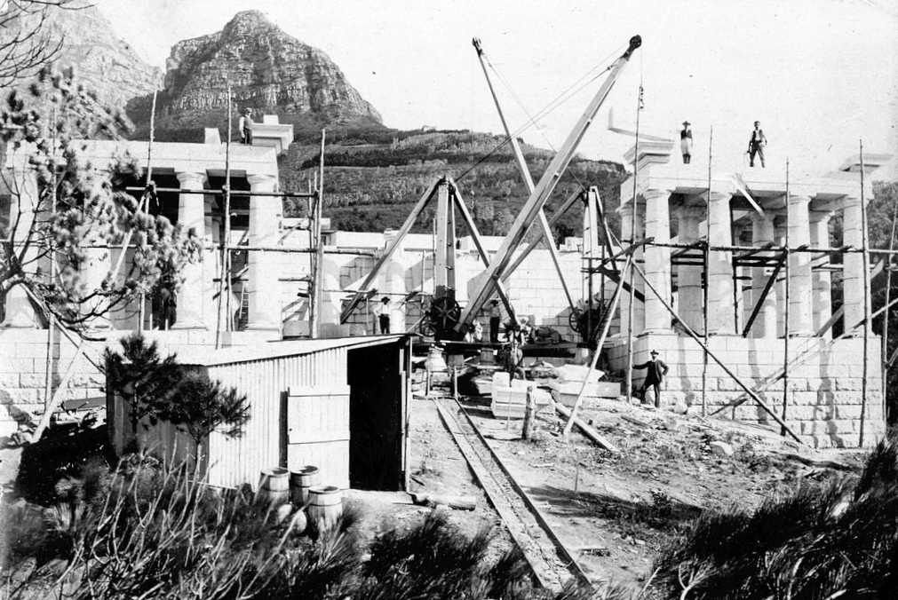 The construction of Rhodes Memorial in the early 1900s. Image in public domain due to its age. Cape Archives.